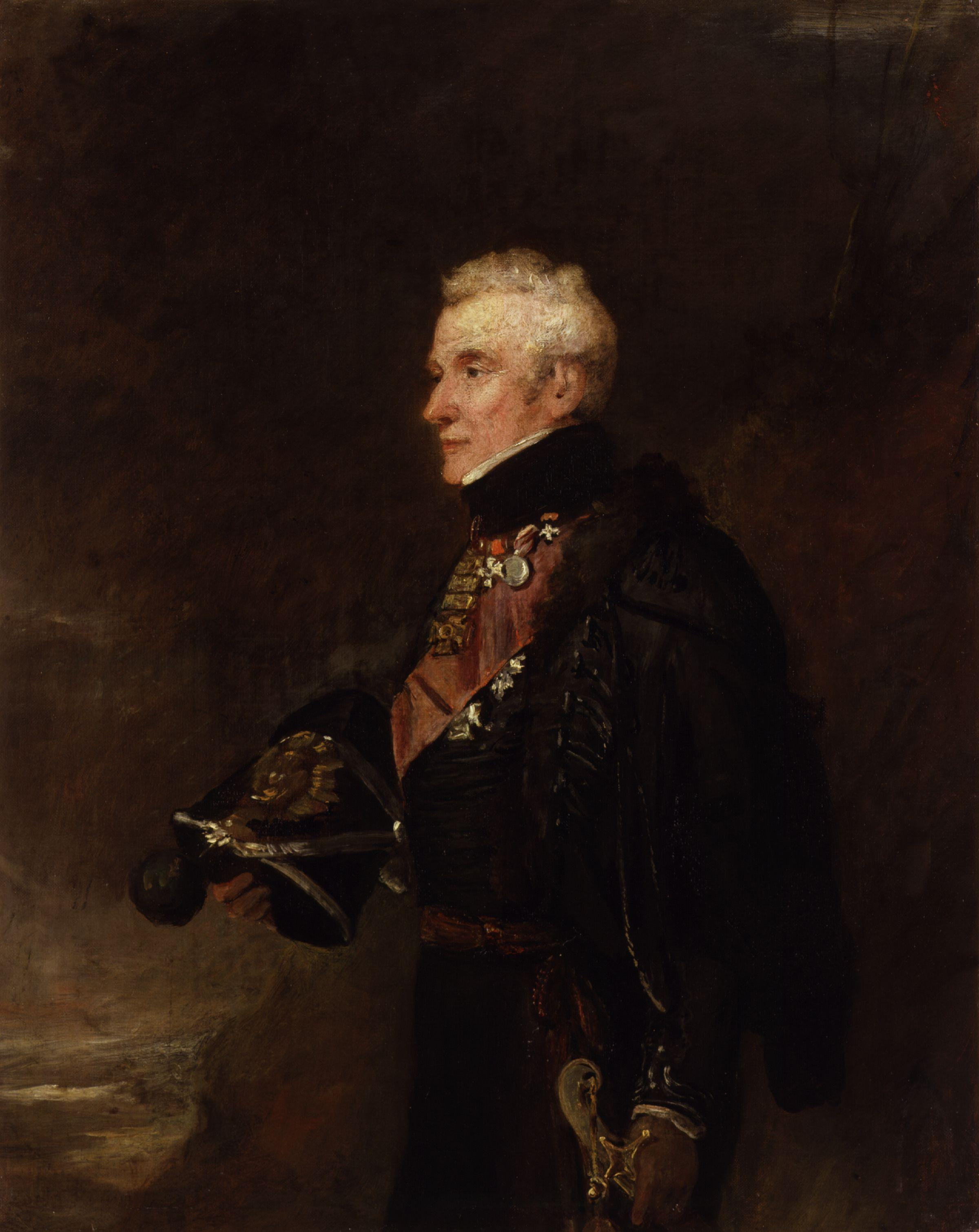 Sir Andrew Francis Barnard, by William Salter (died 1875). All images in this batch have been confirmed as author died before 1939 according to the official death date listed by the NPG.